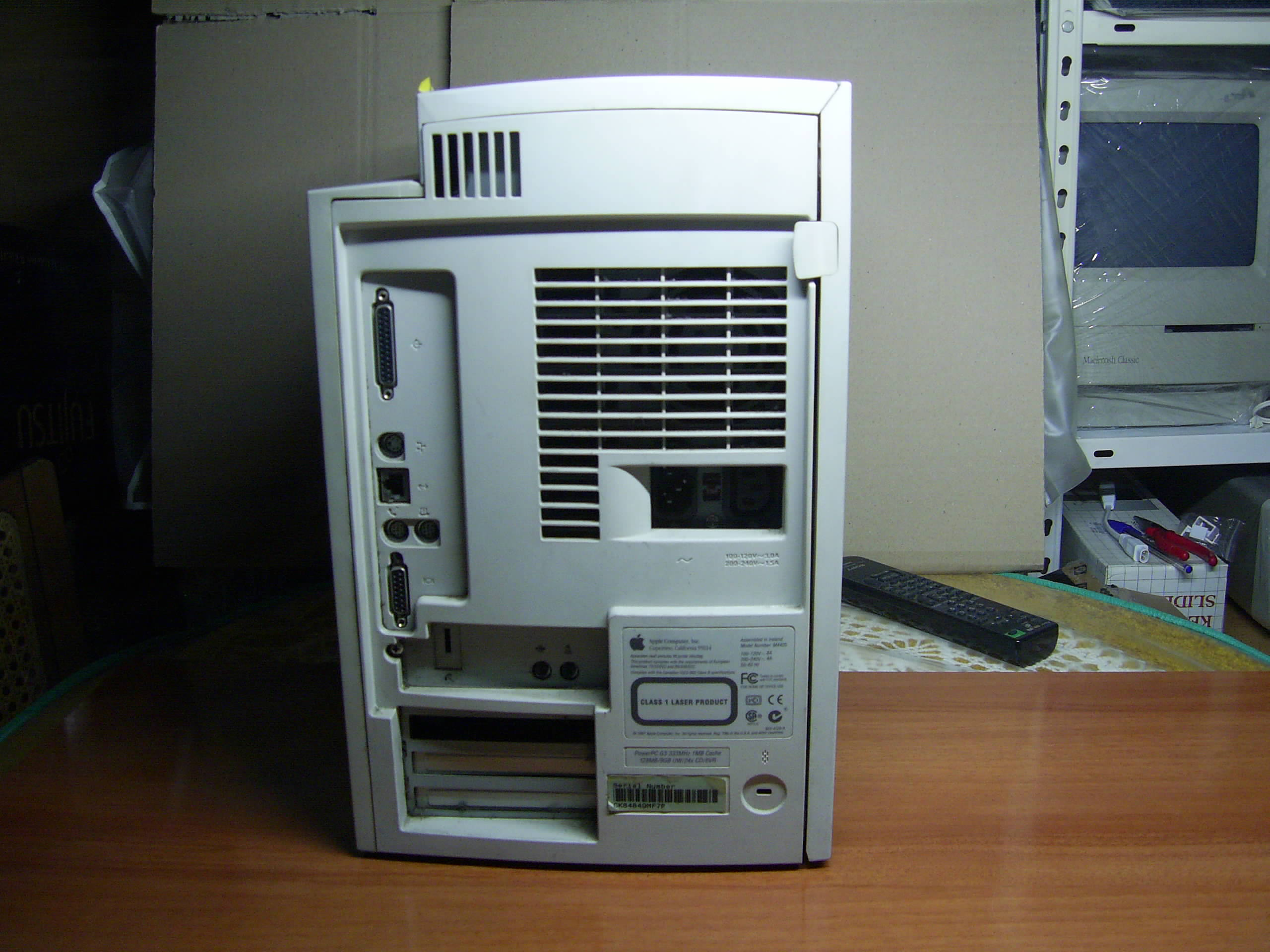 Power Macintosh G3 minitower (Beige) back